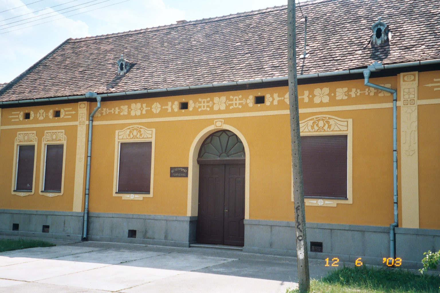 Lovćenac village, Vojvodina, Serbia, old house.